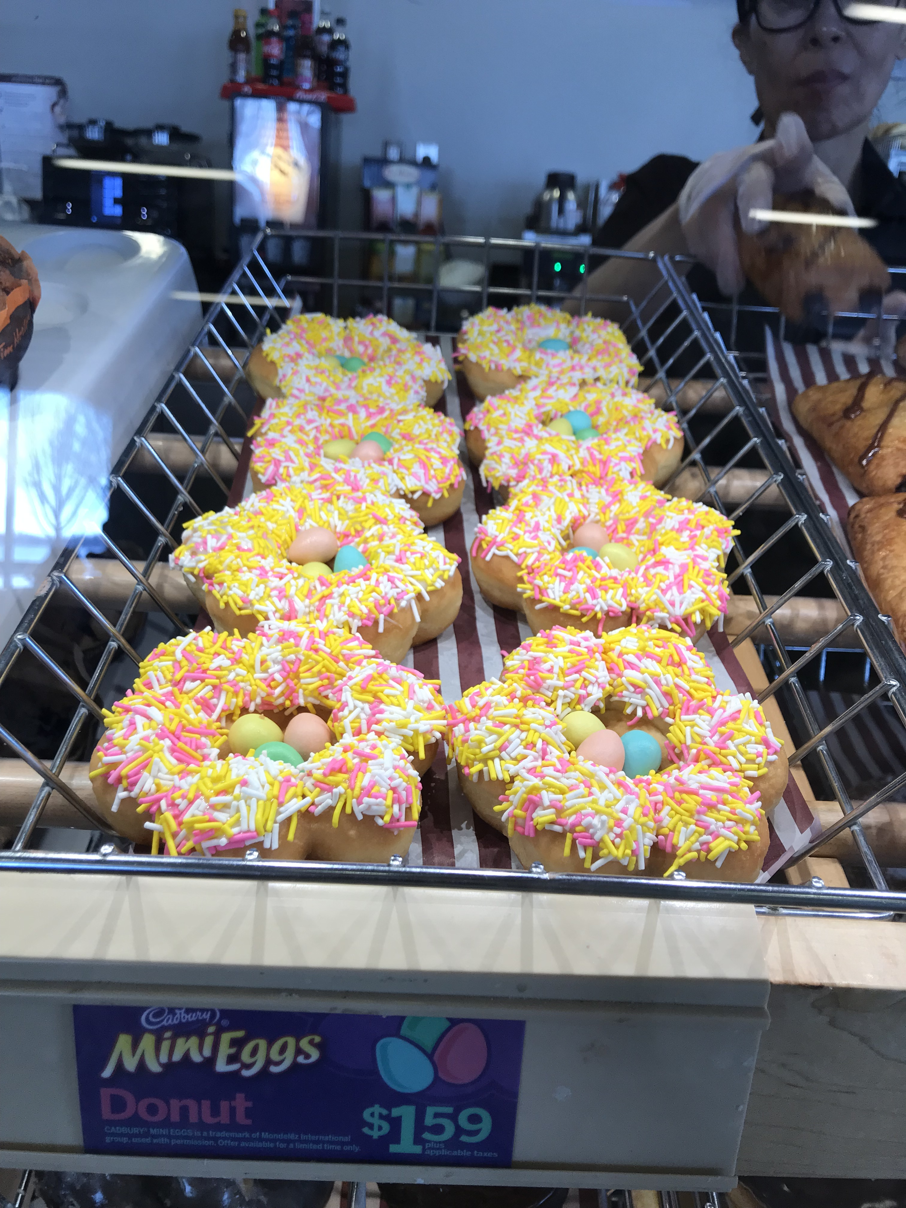 Tim Hortons Cadbury MiniEggs Donut on sale at George Brown College, Toronto, Ontario, Canada. Priced at $1.59 plus applicable taxes.